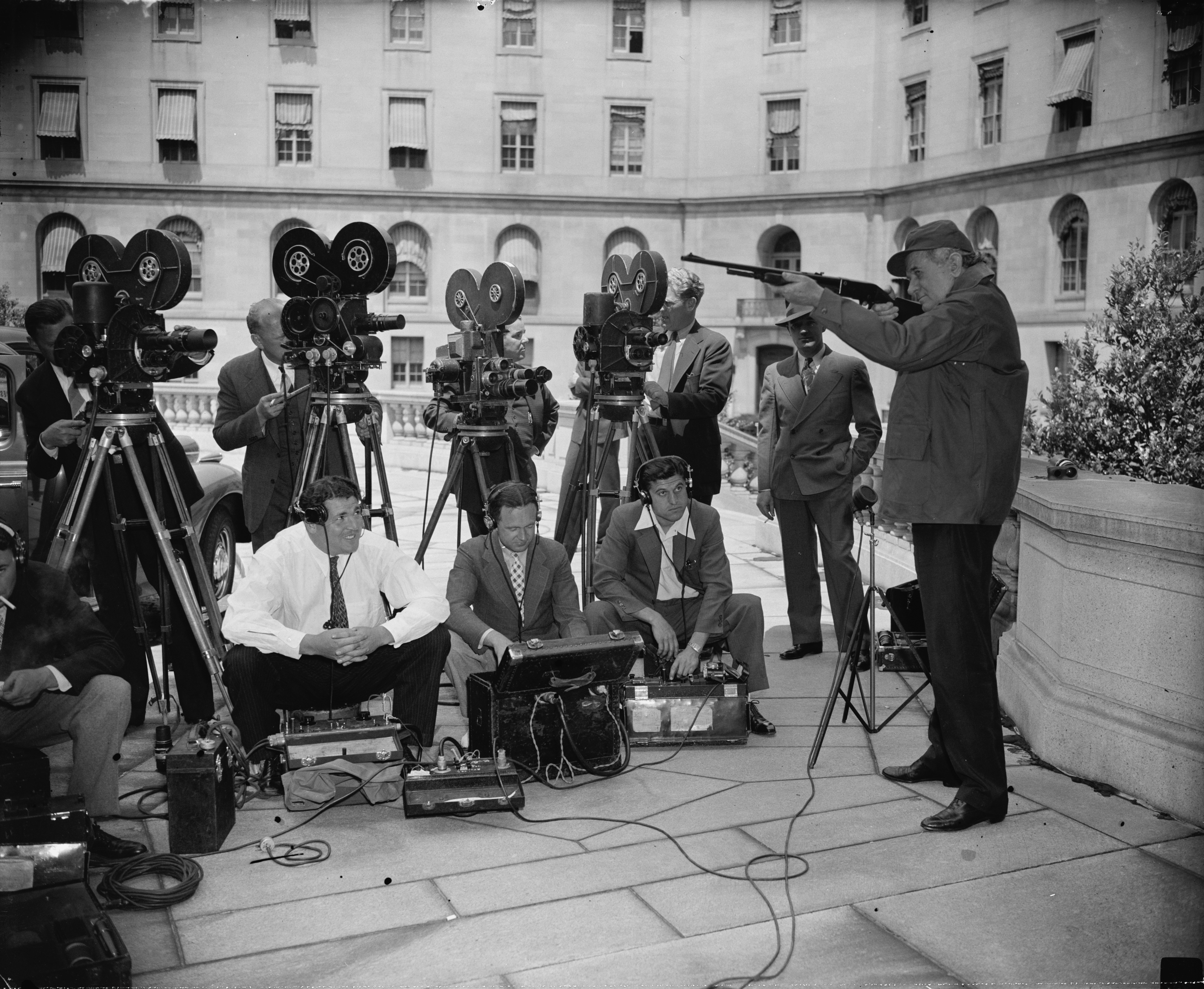 Texas senator tries out "shooting irons" for news cameramen. Washington, D.C., June 14. Looking forward to a hunting trip in his native state as soon as Congress adjourns this week, Senator Tom Connally, democrat of Texas, checked his guns and did a little fancy shooting for the benefit of the cameramen at the Capitol today, 6/14/38